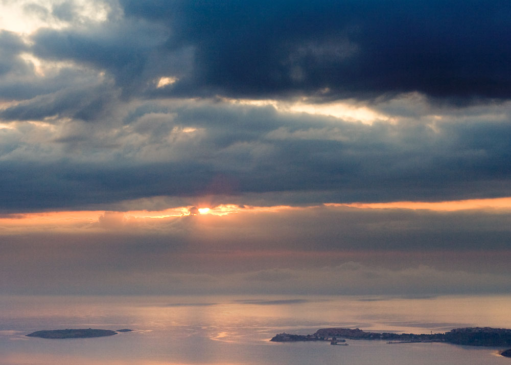 View from Medni Rid towards the old part of Sozopol and islands Saint Ivan, Saint Petar and Saint Kirik